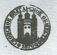 Bulgarian church seal in Skopie